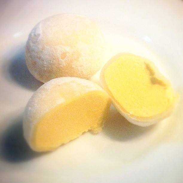 Mango mochi icecream served in Kowloon, Hong Kong